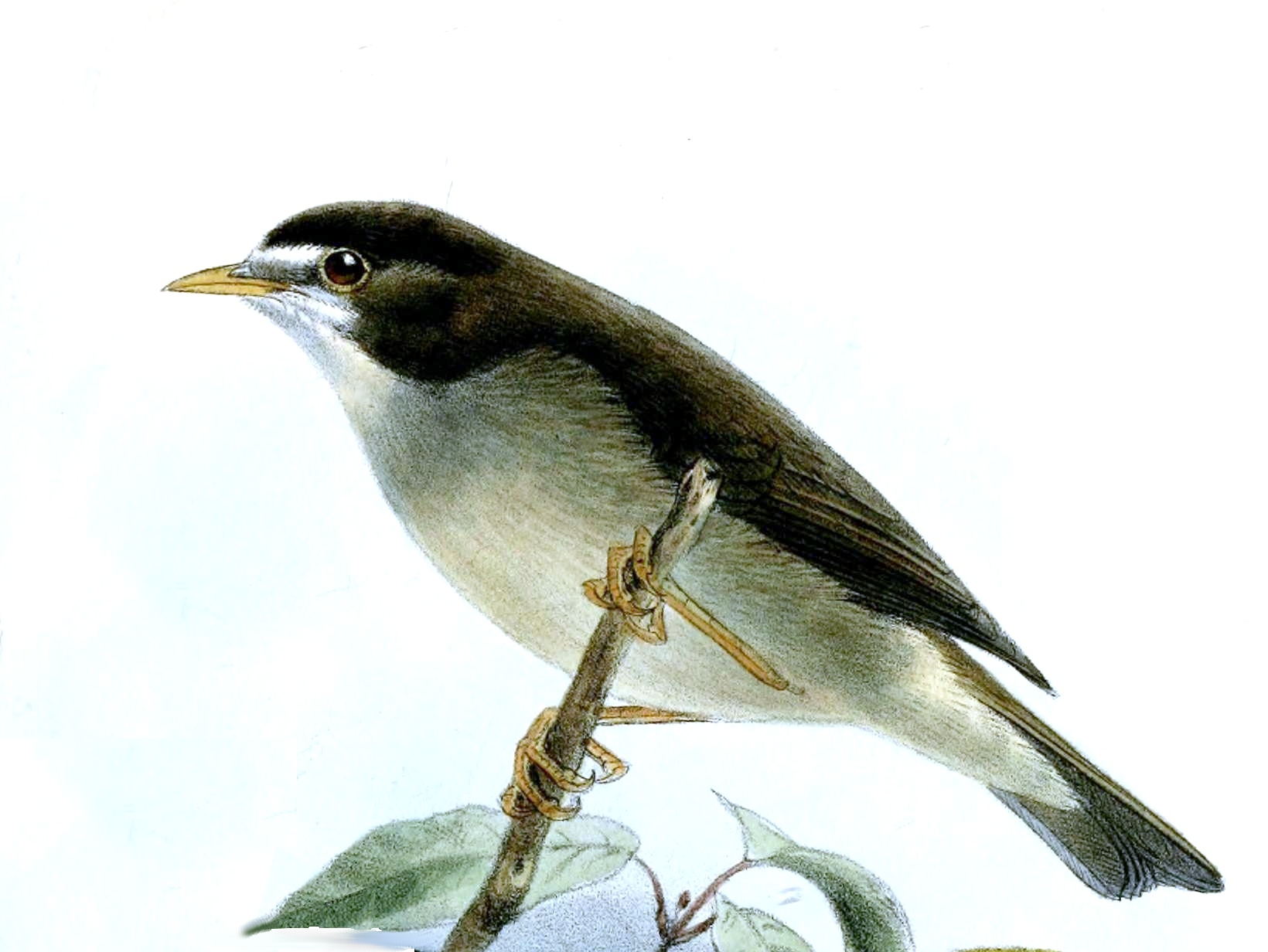 Mount Cameroon Speirops, adult adult female